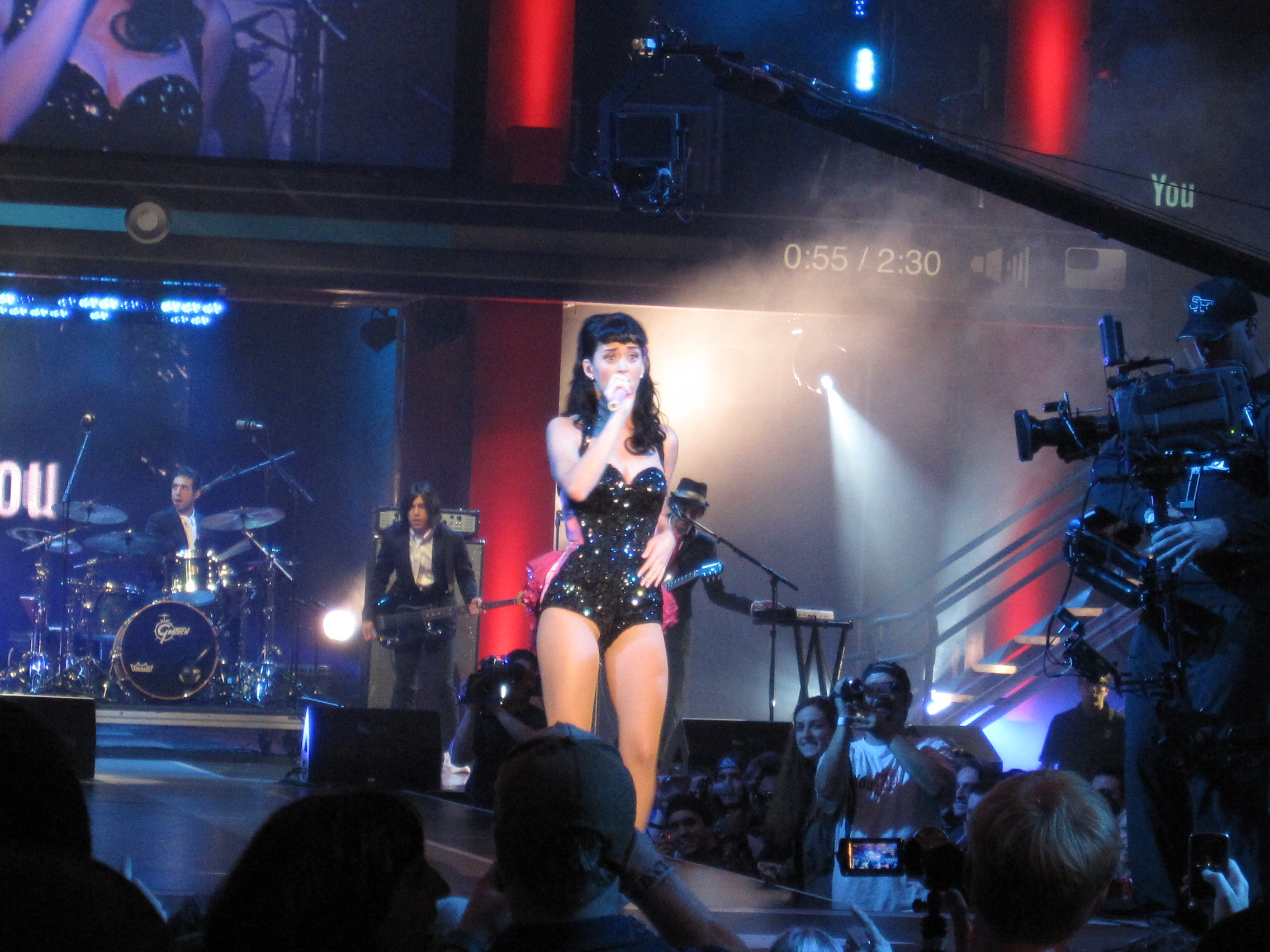 Show de Katy Perry em 2008.